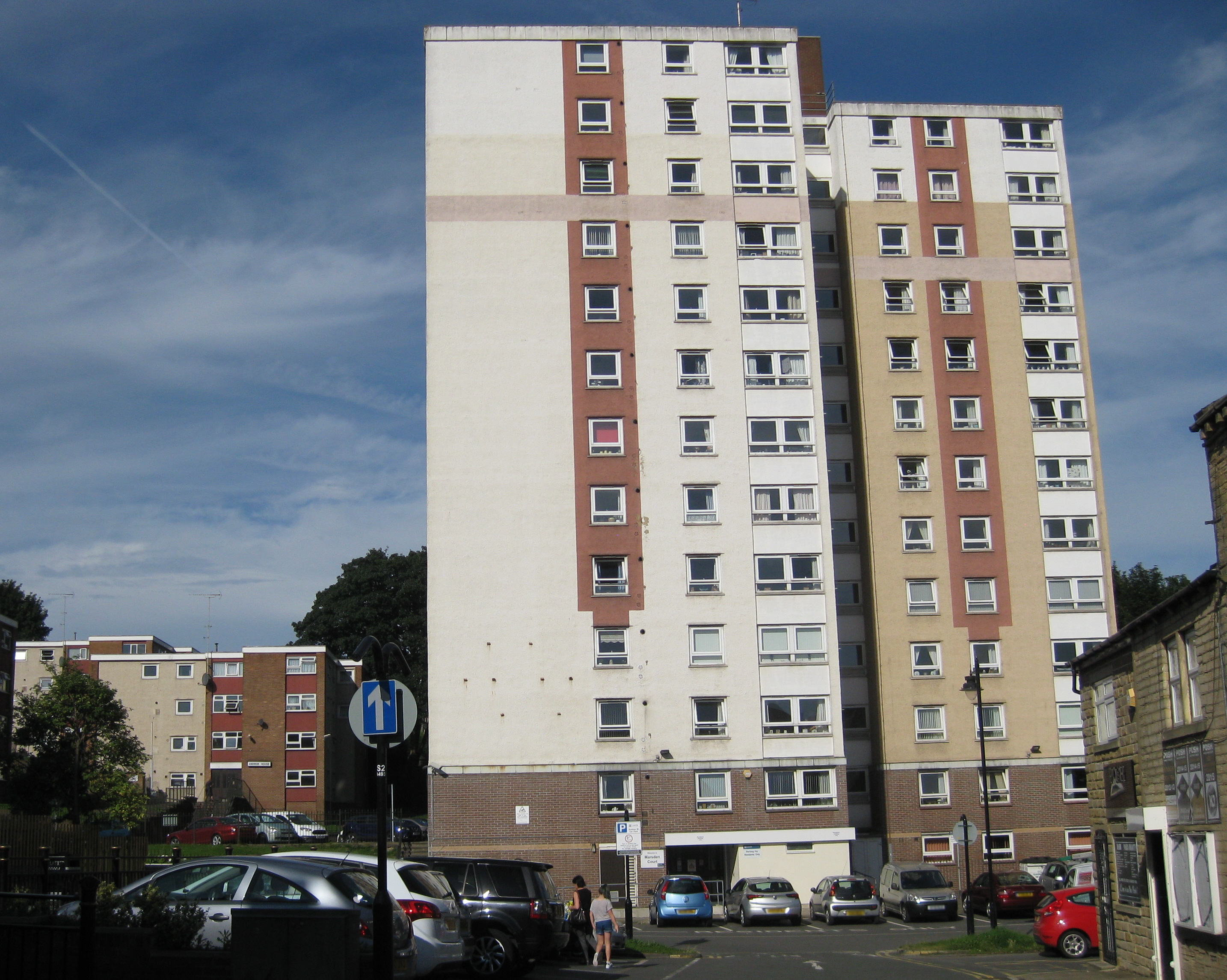 Marsden Court flats, Farsley. Looking down Andrew Square. The low rise to the left is Andrew House.